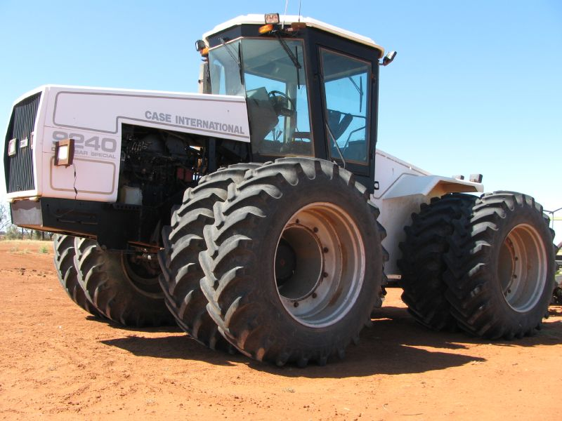 A CASE IH 9240 draw bar special